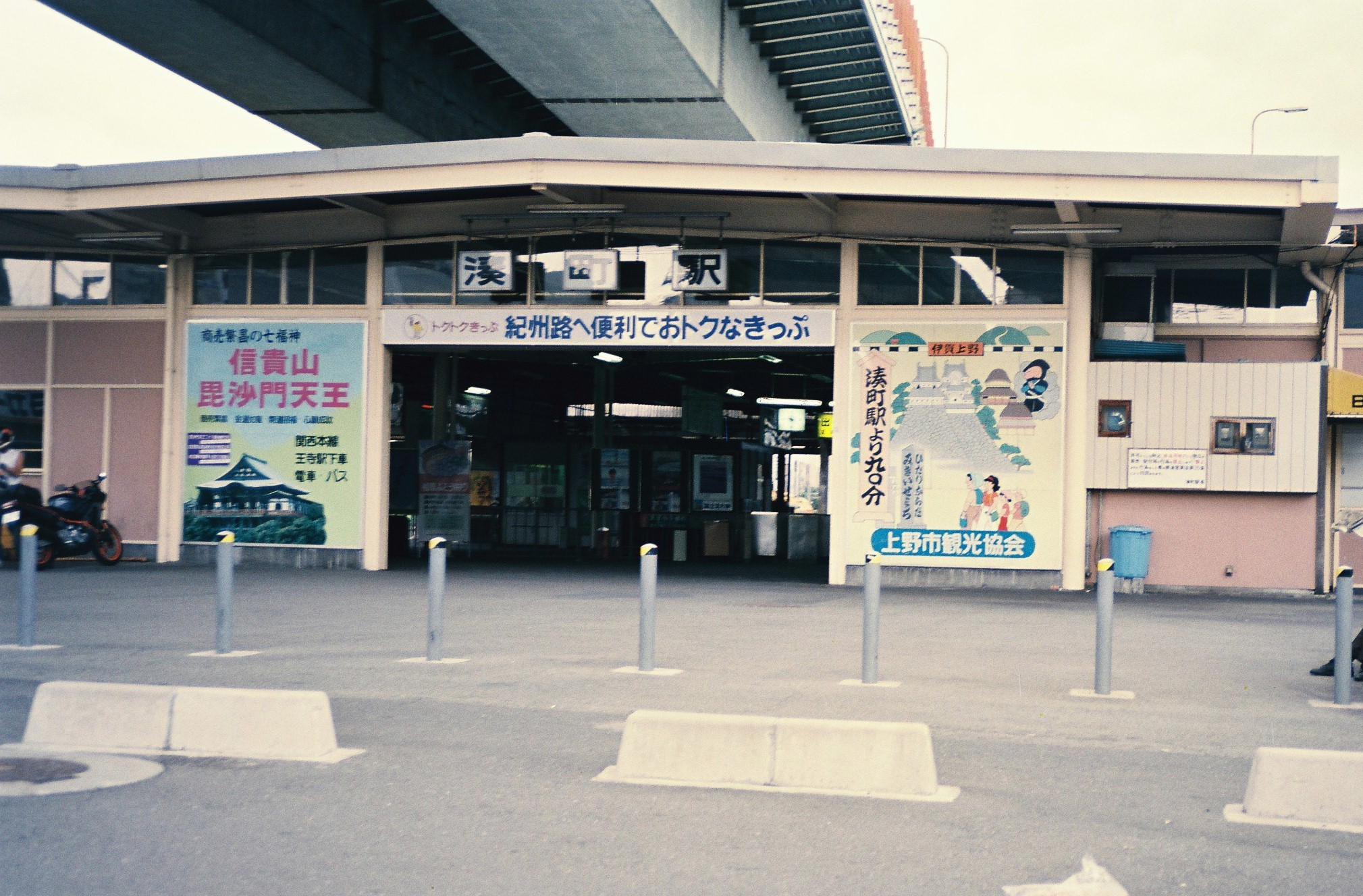 Minatomachi Station (later renamed Namba Station)